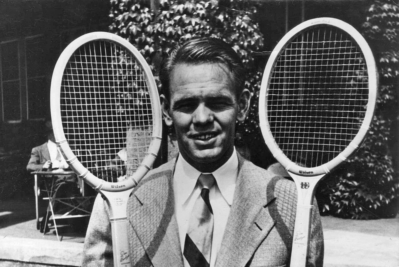 American tennis player Jack Kramer